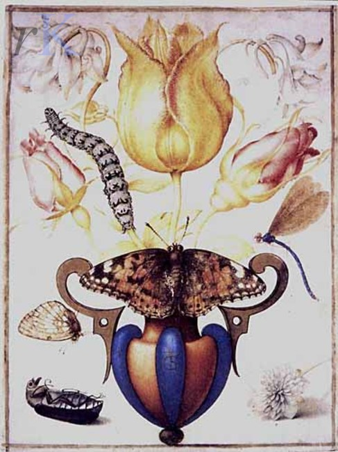 Joris Hoefnagel, Flower still life with insects, drawing on vellum, brush with watercolor, 16,1 x 12 cm, Ashmolean Museum of Art and Archaeology, Oxford